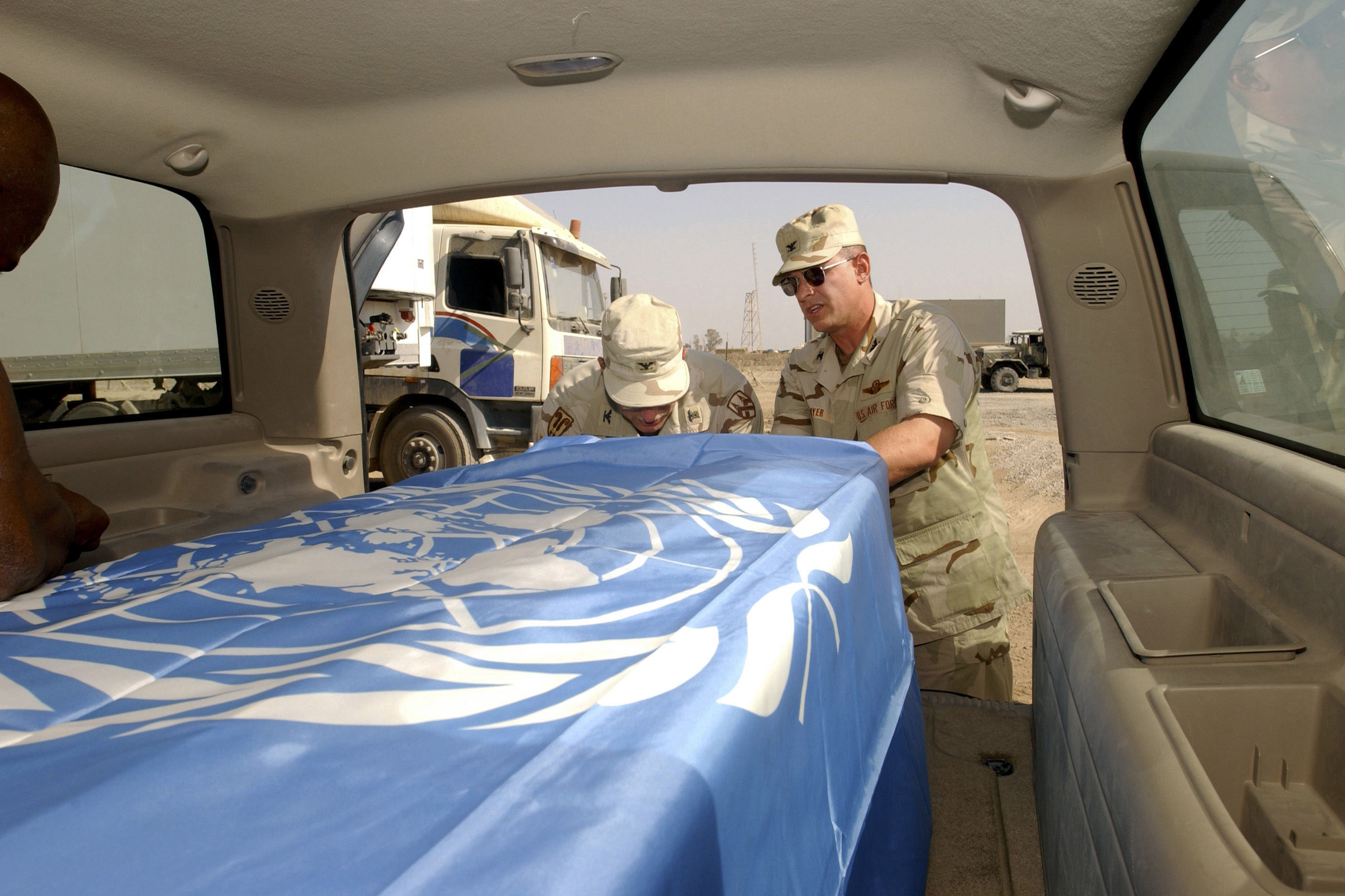 US Army Colonel Richard Dillon, Head of USA Mortuary Affairs, and US Air Force Colonel Dennis Ployer, Commander, 447th Air Expeditionary Group (AEG), secure a United Nations Flag over the transfer casket of UN Chief Ambassador to Iraq, Sergio Vieira de Mello, prior to a memorial service at the Baghdad International Airport. Sergio Vieira de Mello was a victim of a suicide truck bombing at the United Nations Office of Humanitarian Coordinator in Baghdad, Iraq.